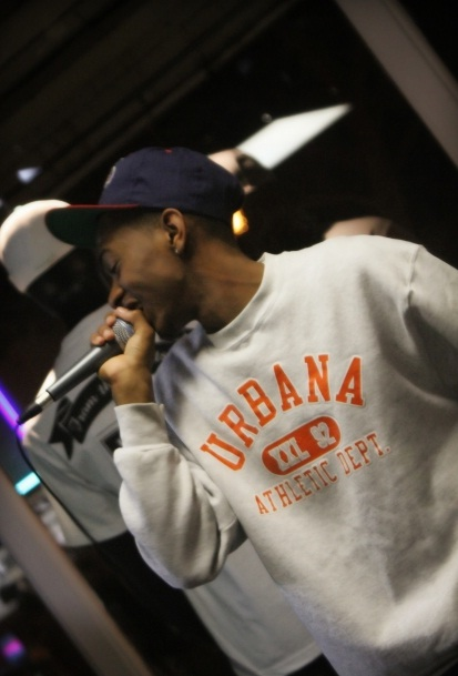 DeShay performing at MePhi in AZ in 2010